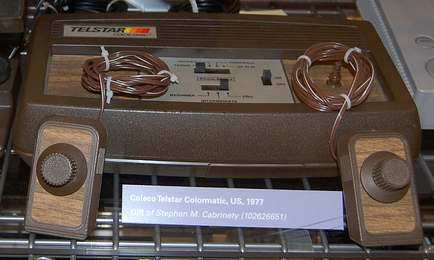 Coleco Telstar Colormatic Pong-like console